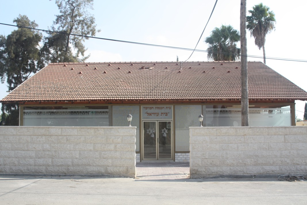 Beit Uziel Central Synagogue